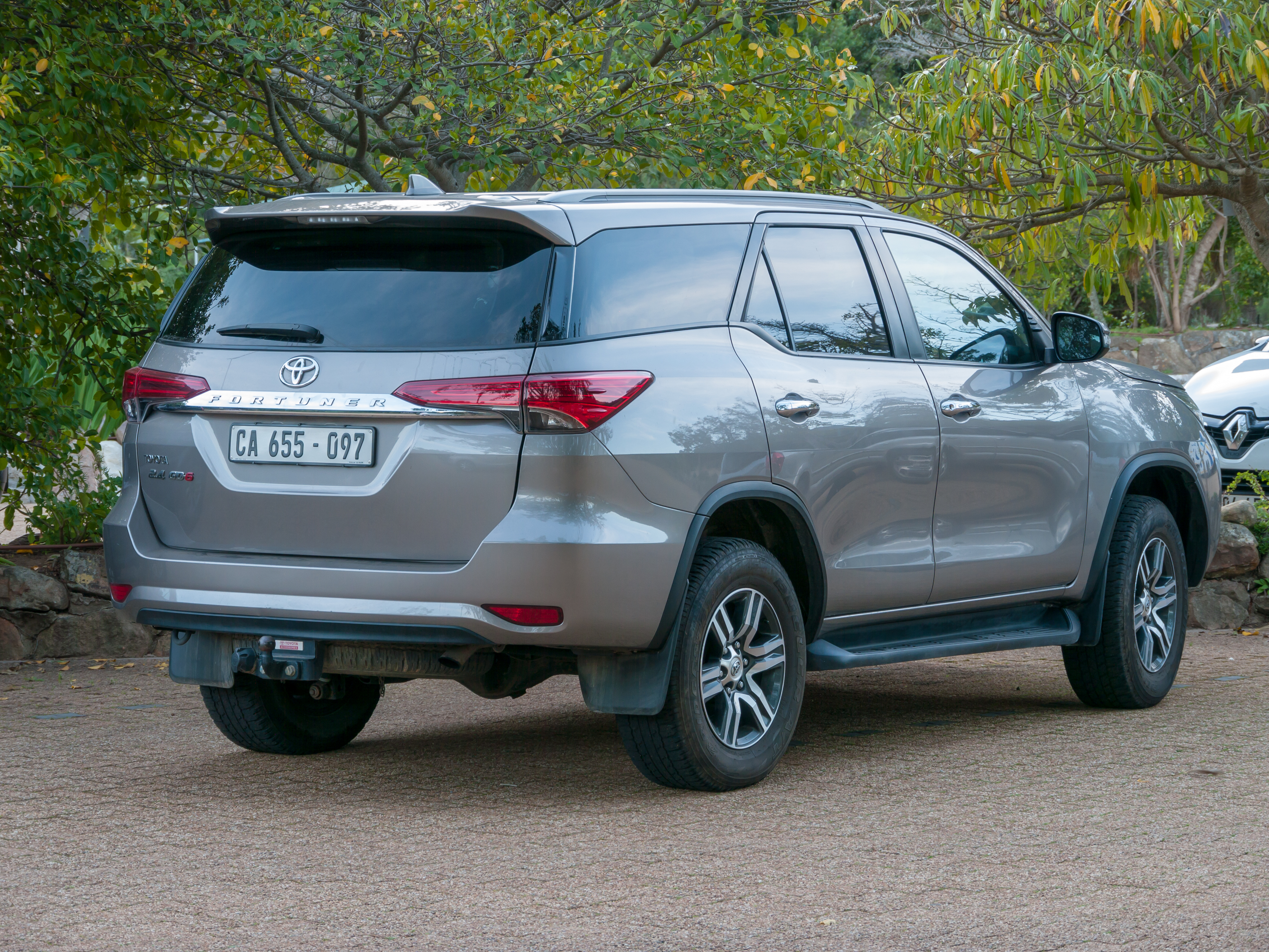 Toyota Fortuner, Cape Town